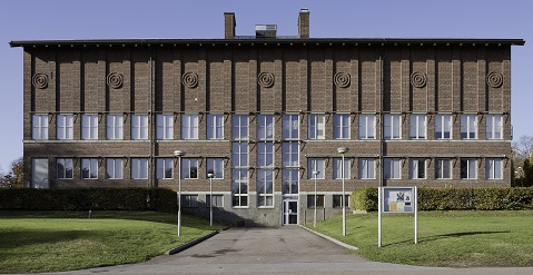 Halland Art Museum, viewed from the shore of river Nissan. October 2016